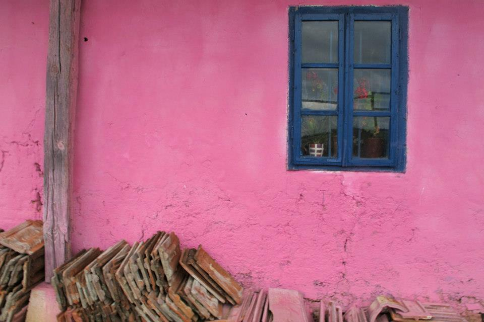 Funny pink house in the villageSlovenščina: Smešna hiša